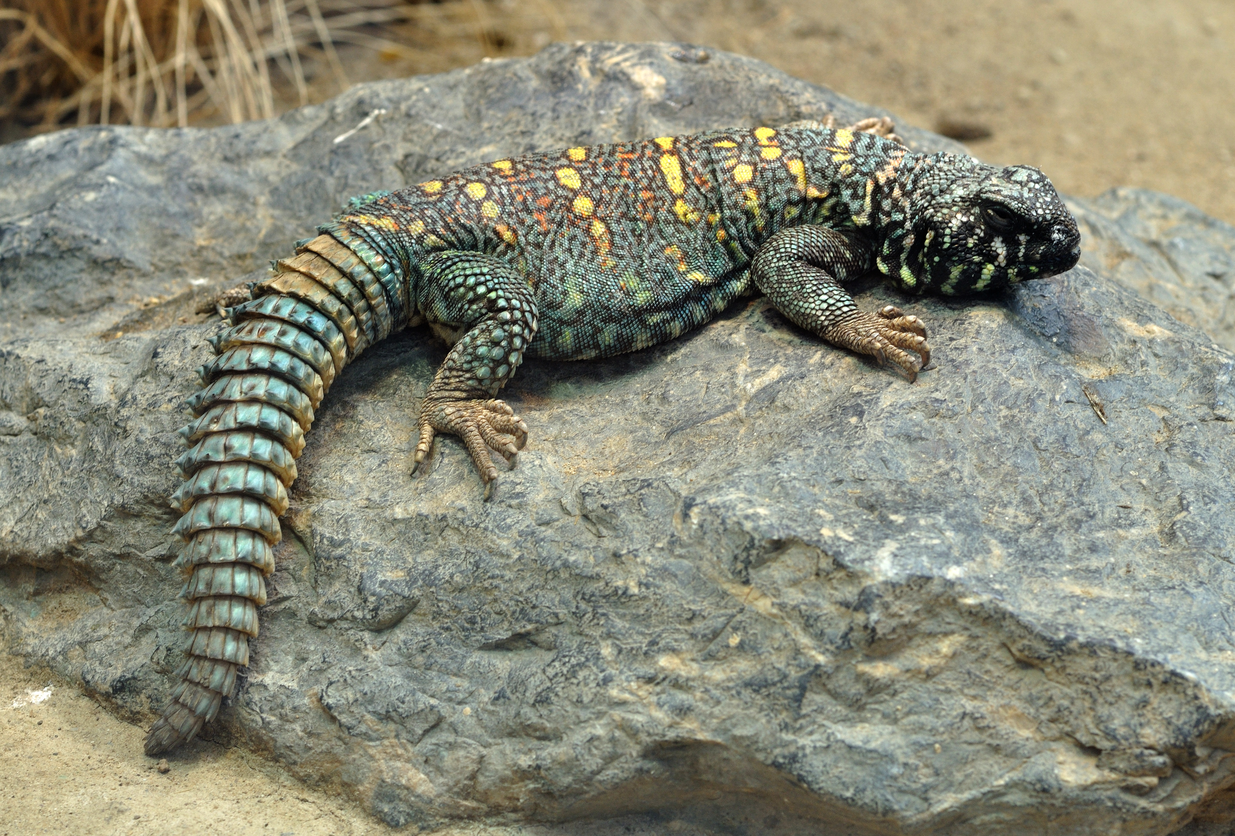 Ornate Dabb Lizard (Uromastyx ornata) in the Frankfurt Zoo.